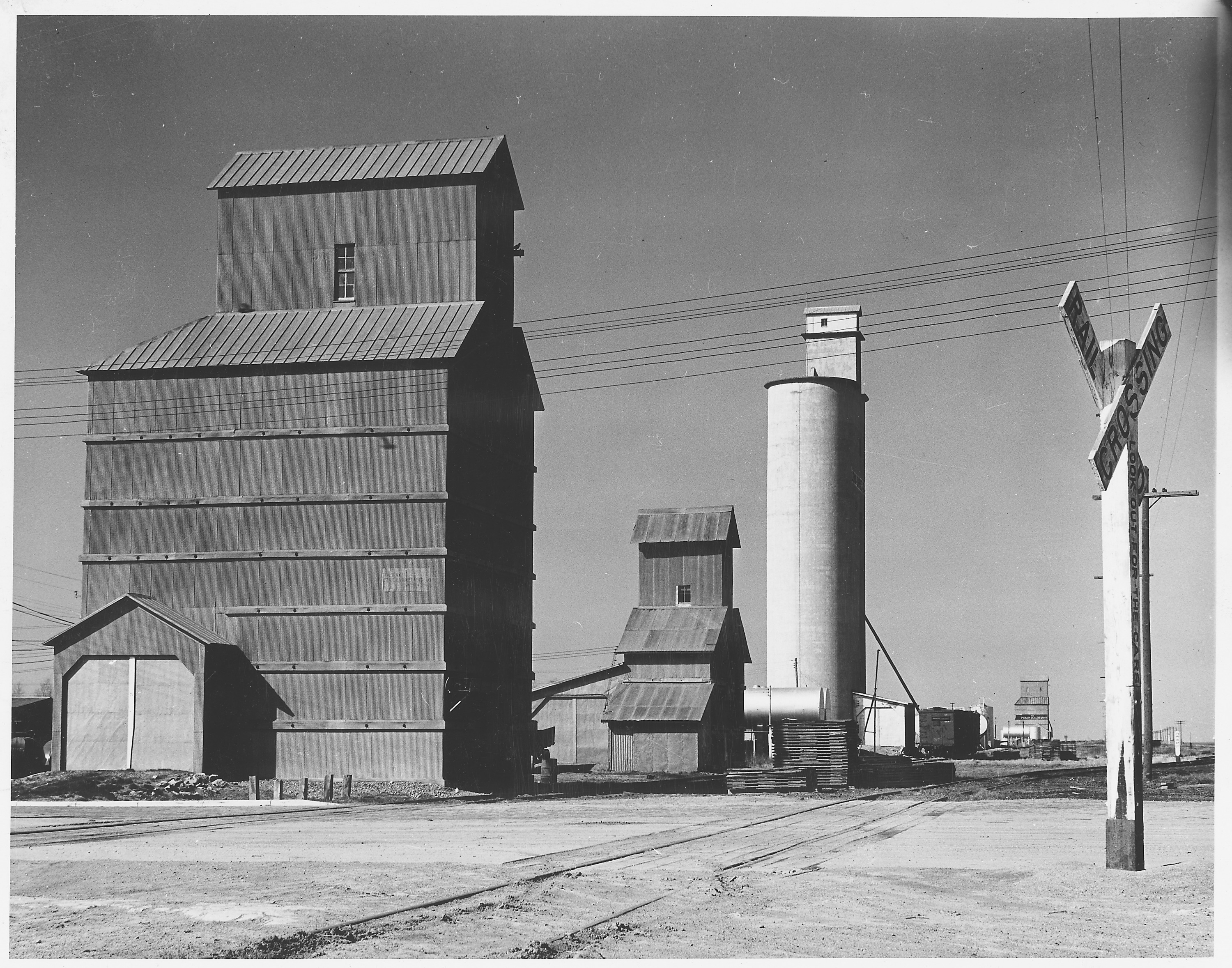 Scope and content: Full caption reads as follows: Haskell County, Kansas (Sublette). Grain elevators near the depot in Sublette. If there should be a crop this year, thousands of bushels of wheat will have to be piled on the ground, because the elevators are pretty well filled up even now.